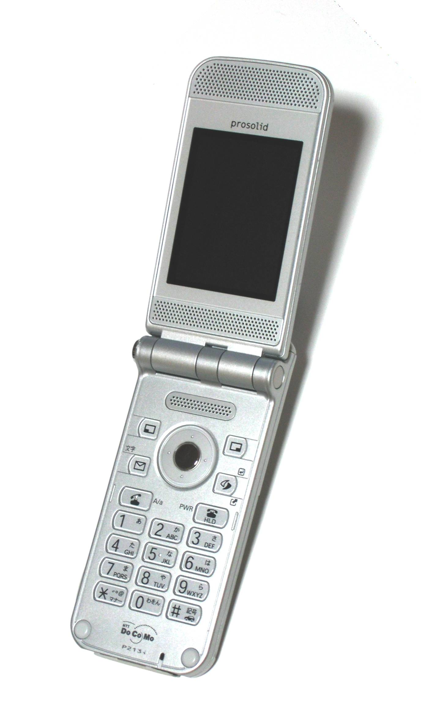 NTT DoCoMo mova P213i prosolid is a thin mobile phone